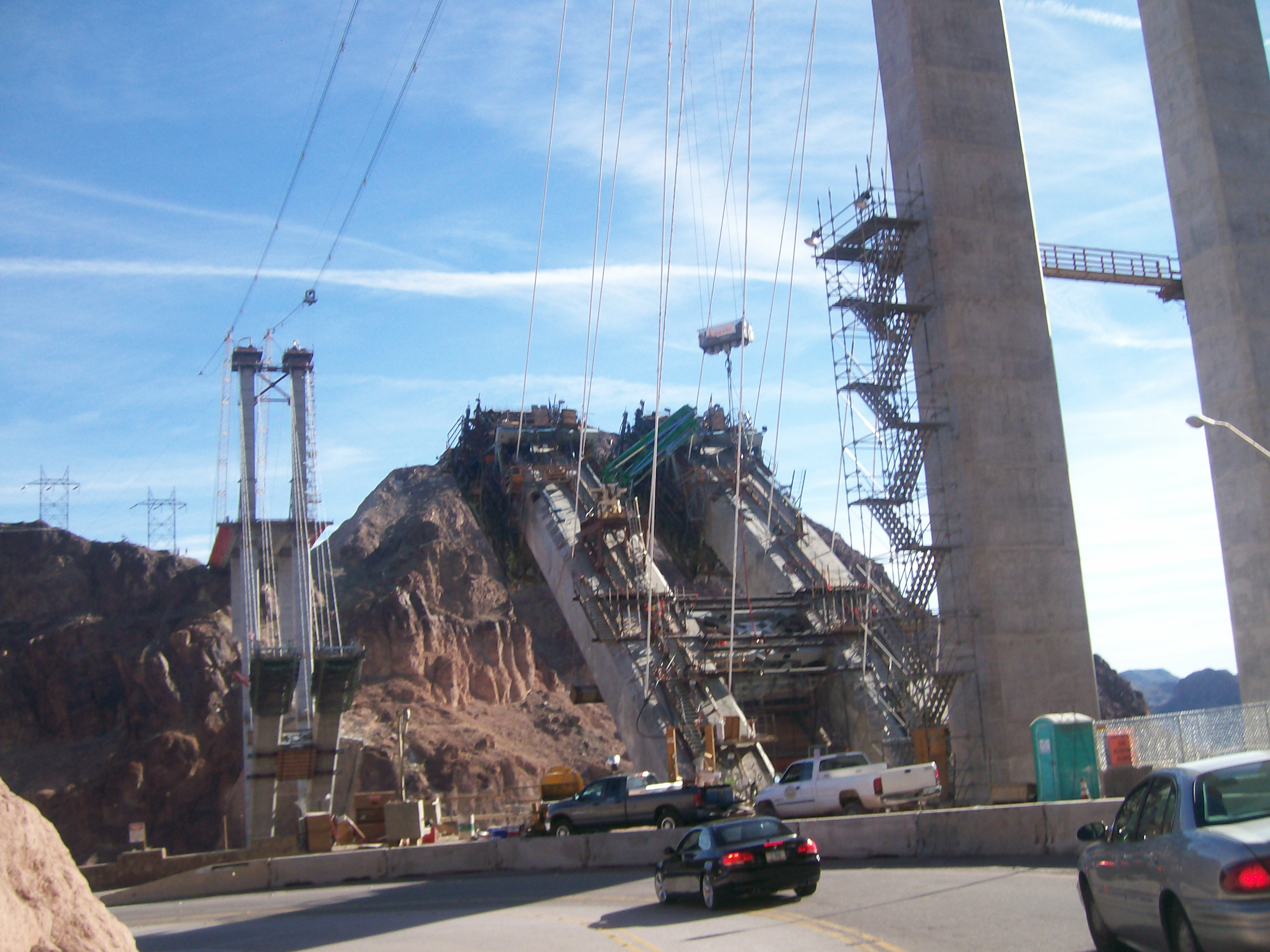 Photo from the Nevada side of the river approaching the Mike O'Callaghan-Pat Tillman Memorial Bridge, the major component of the Hoover Dam Bypass project in January 2009.